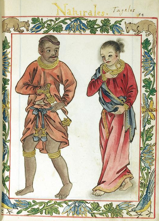 Illustration of a native Noble in the Pre-hispanic Philippine Archipelago